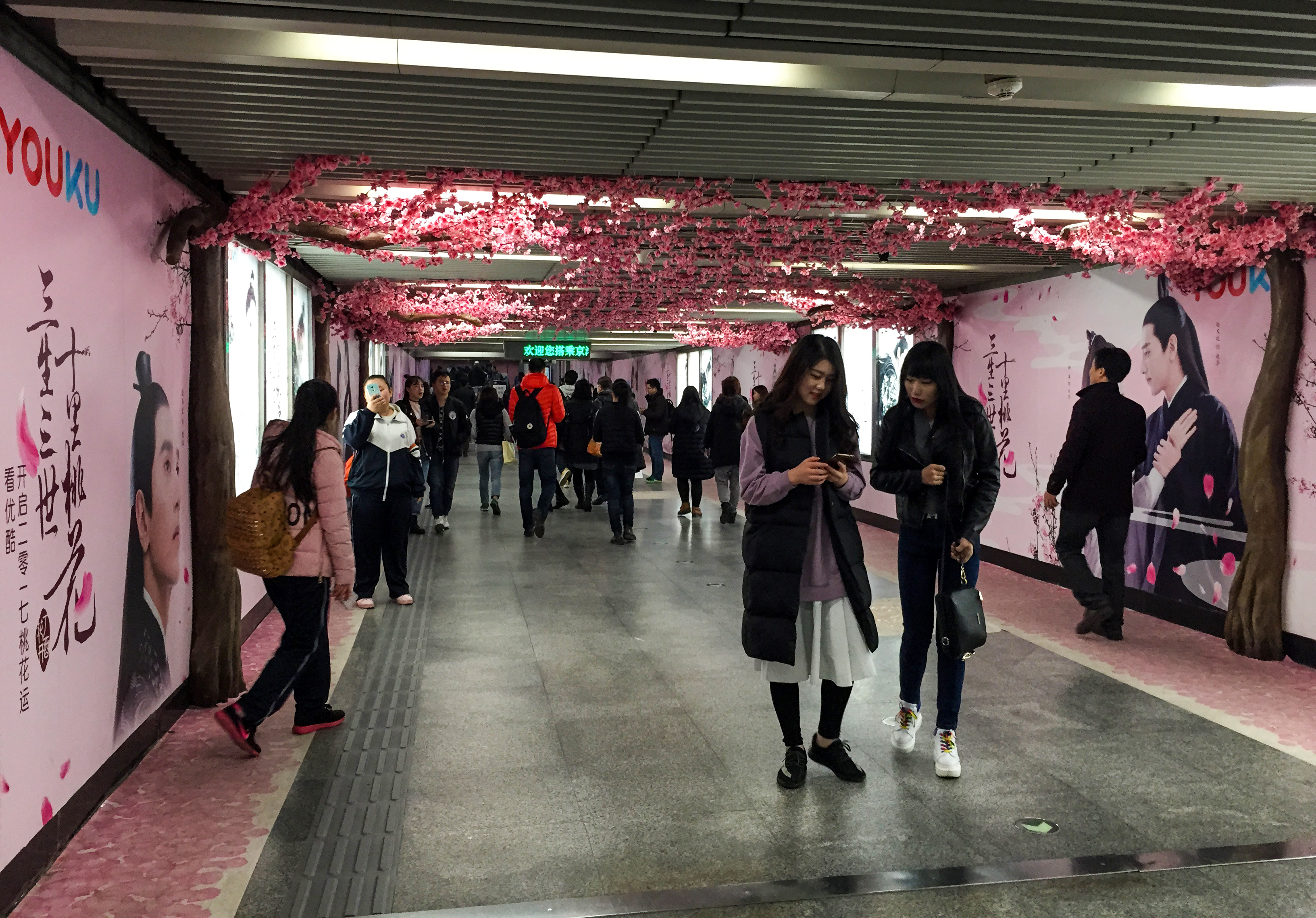 With Three Lives Three Worlds, Ten Miles of Peach Blossoms promotional advertisement. Here features a corridor of peach blossoms.